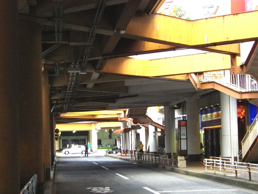 Kashiwa Station East Exit Bus Stop